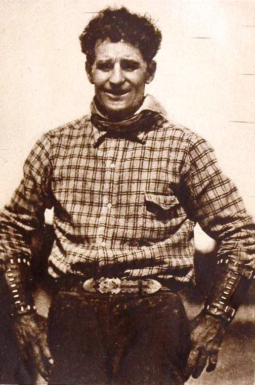 Actor Fred Stone on page 23 of the October 1919 Shadowland.